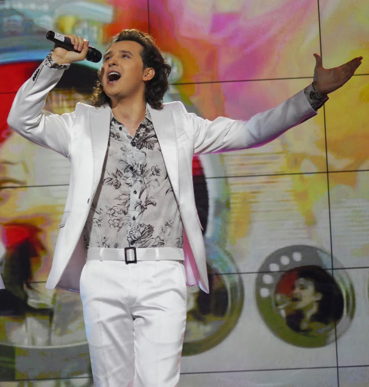 Dmytro Yaremchuk